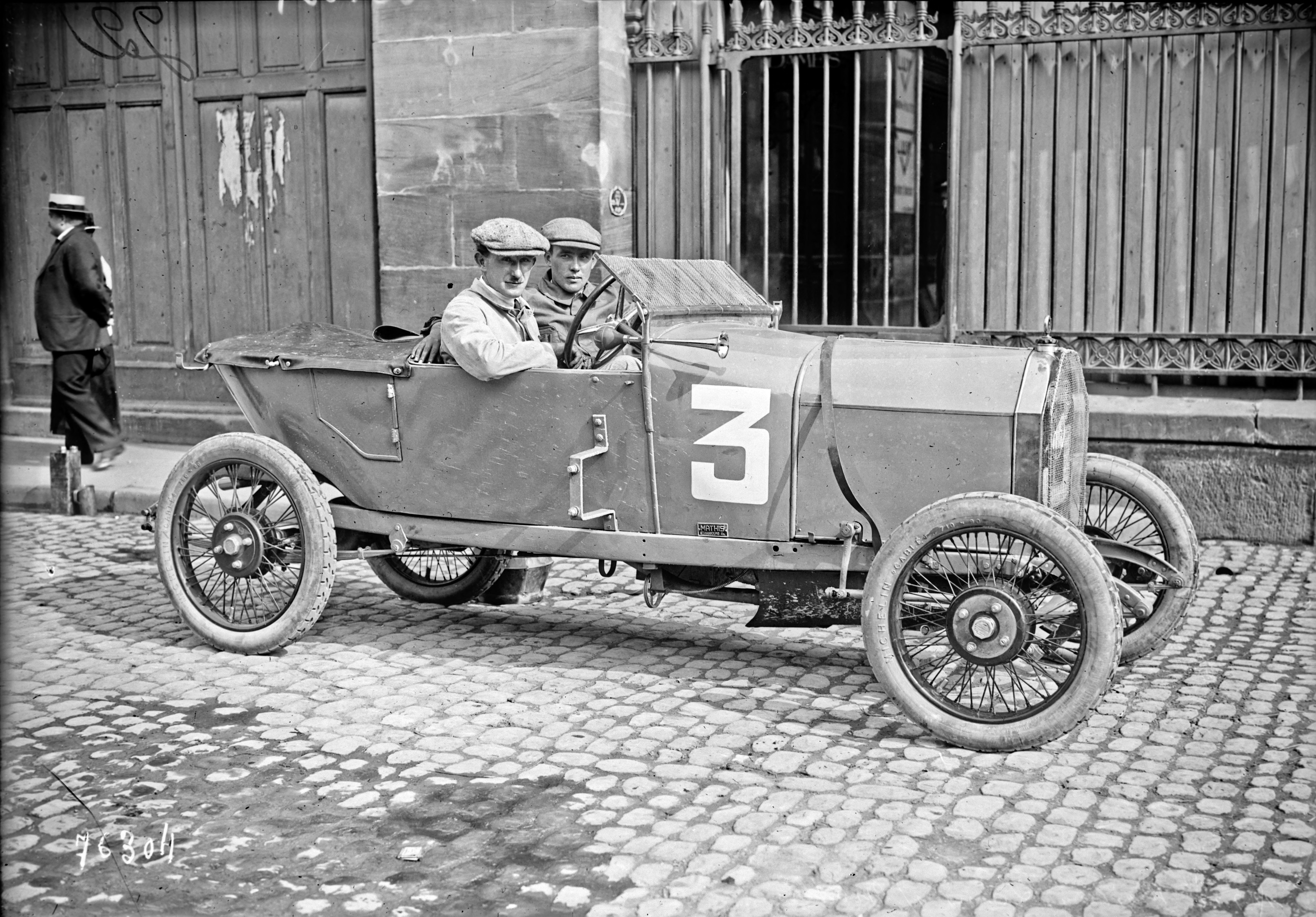 Lams (?) at the 1922 French Grand Prix